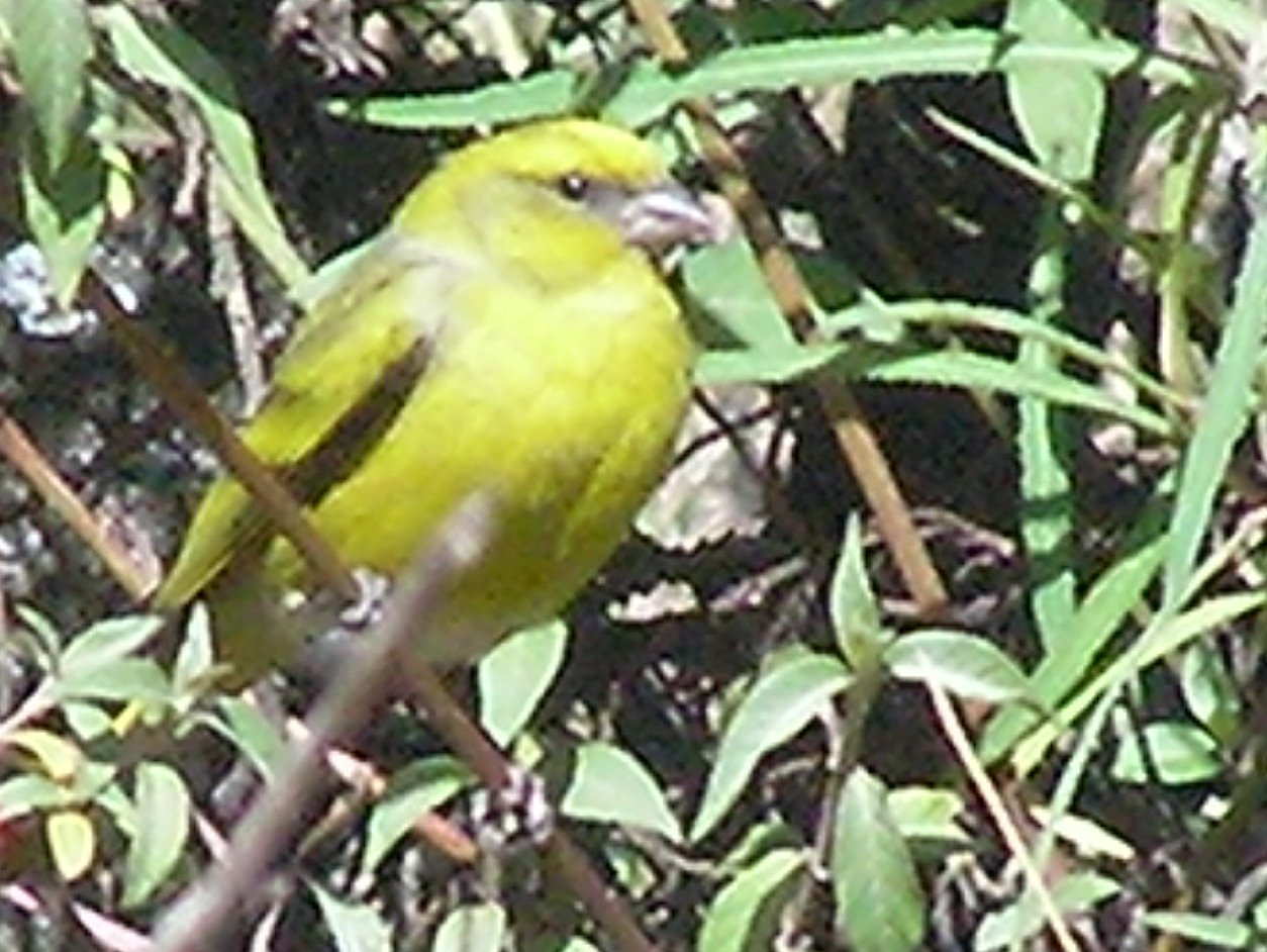 Serinus flavivertex in Debre Berhan, Ethiopia